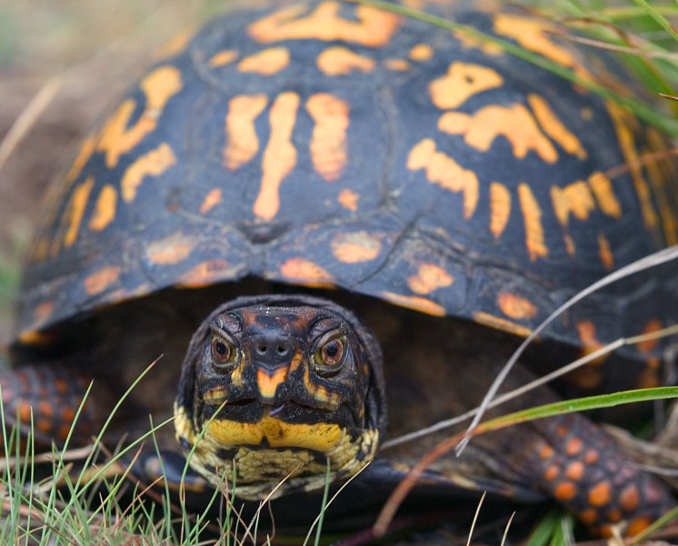 U.S. Fish and Wildlife Service photo, Terrapene carolina carolina